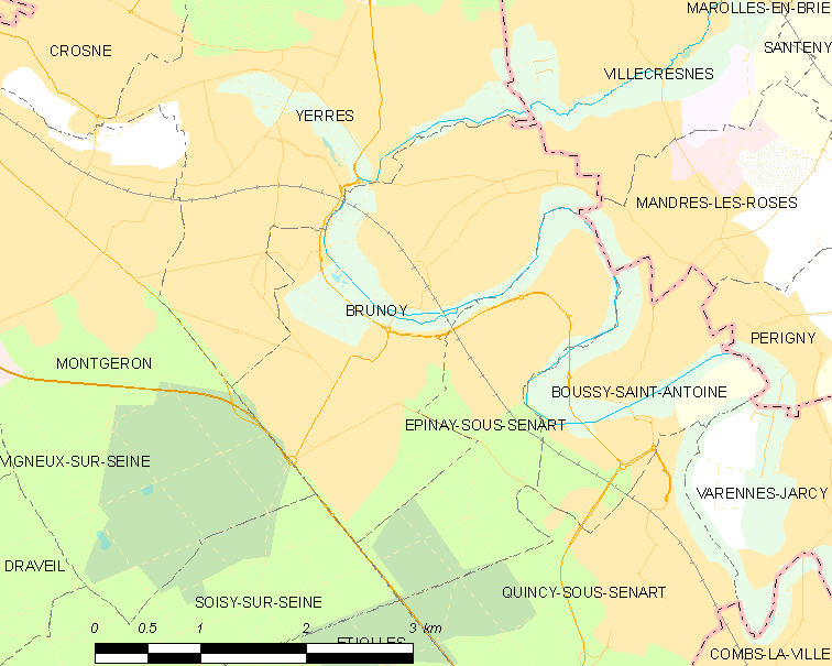 Map of French municipality Brunoy